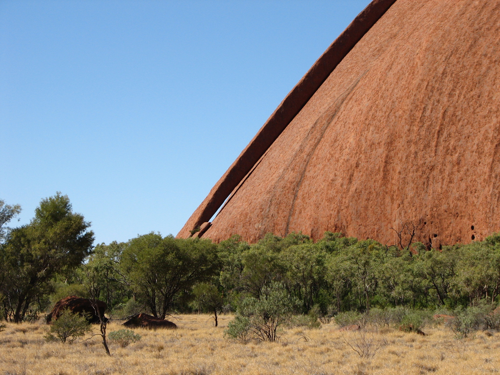 Uluru (also known as Ayers Rock) in Central Australia. Photo shows part of the base of the rock and a crack in the rock face.